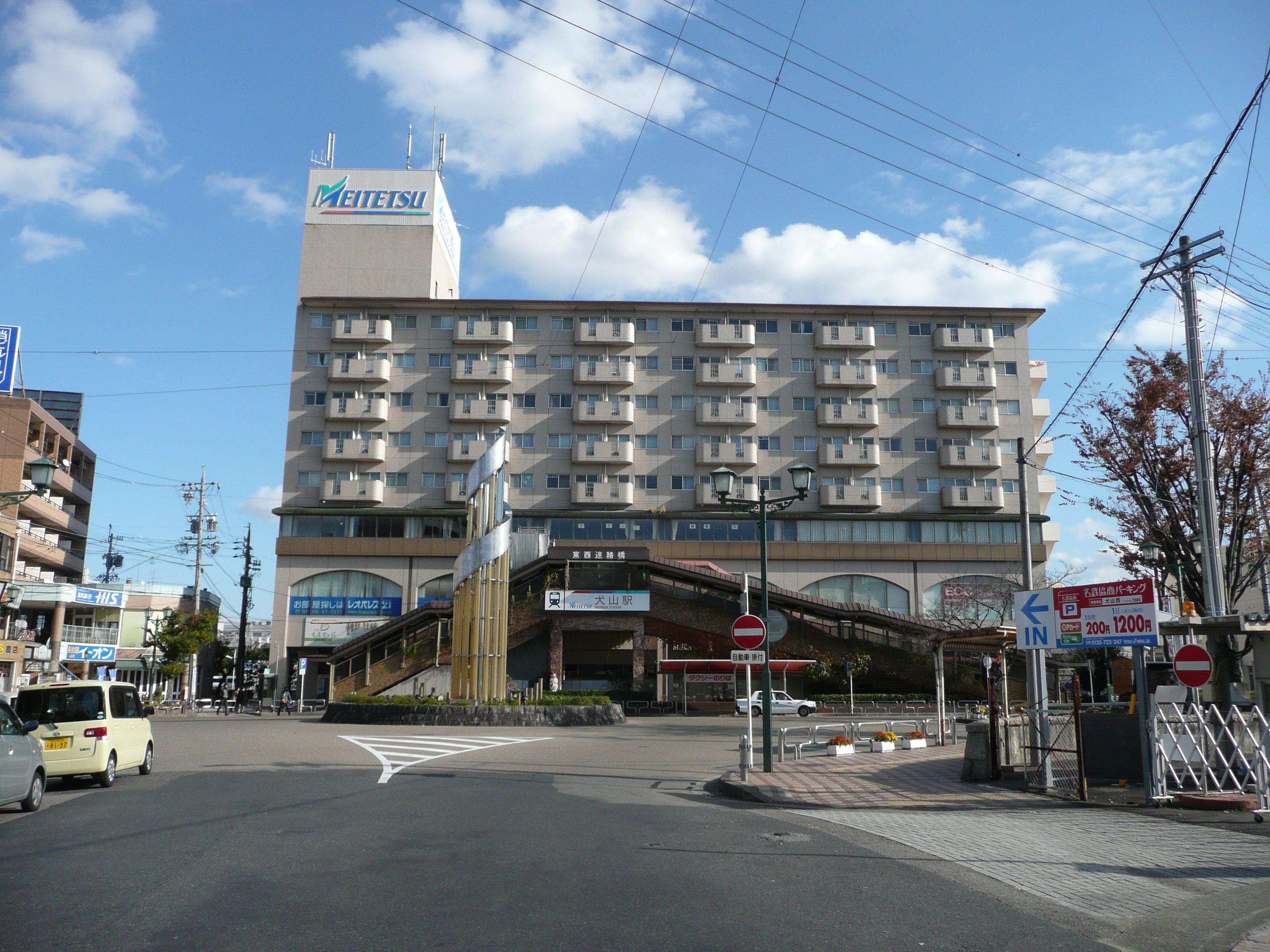 犬山駅舎